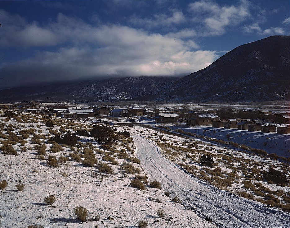 Title: Questa, Taos County, New Mexico